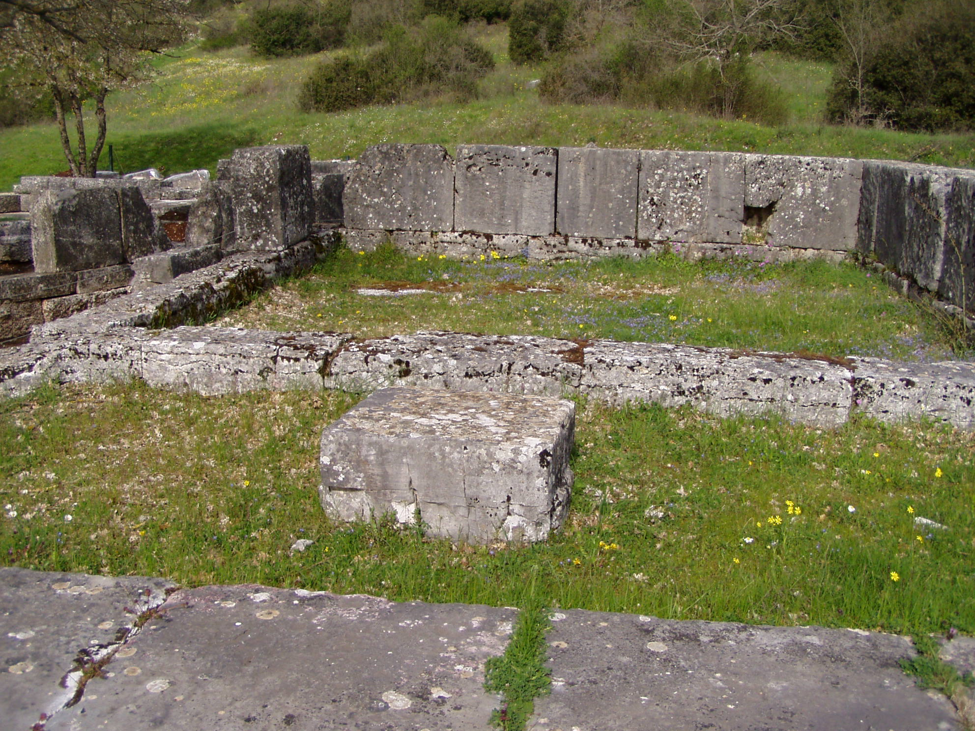 This is the new temple of Dione in Dodona.